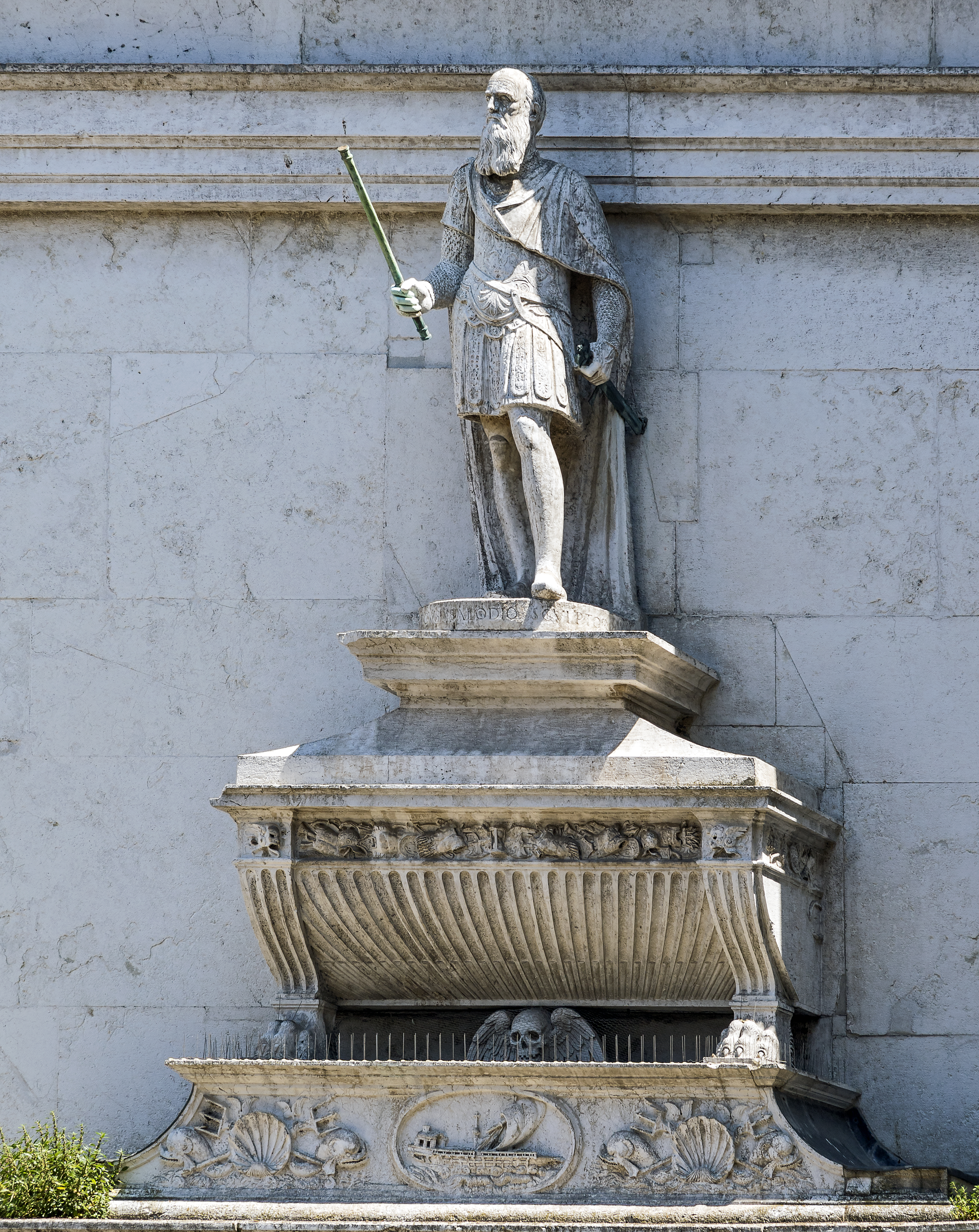 Church of Santa Maria Formosa West facade. Above the entrance, the catafalque of Vicenzo Cappello, Capitan del Mar winner of the Turkish fleet and died in 1541, and his statue of the sculptor Domenico di Pietro Grazioli pupil of Sansovino